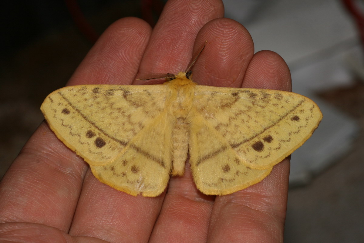 Malaysia, Fraser's Hill. March 2009